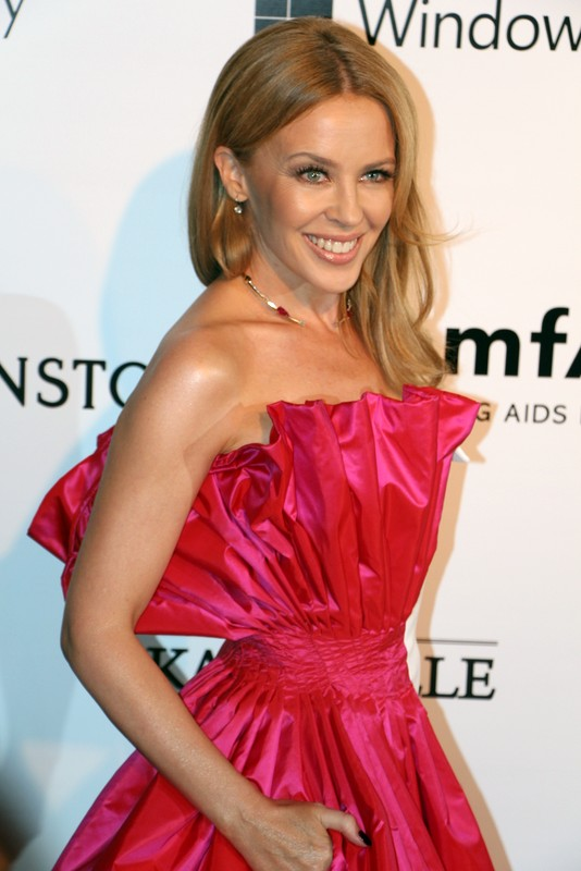 Kylie Minogue at an amfAR event in Sao Paulo, Brazil